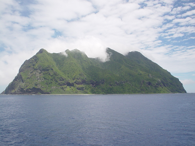 The NW side of North Iwo Jima (Kita-Iwojima, Kita-Iōtō), Volcano Islands, Japan - viewed from Ogasawara-maru.